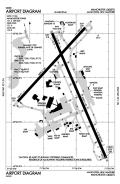 FAA airport diagram for Manchester-Boston Regional Airport (MHT) in Manchester, New Hampshire, United States.